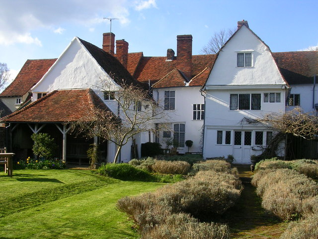 Paycocke's House, Coggeshall Ancient NT house seen from the back garden.